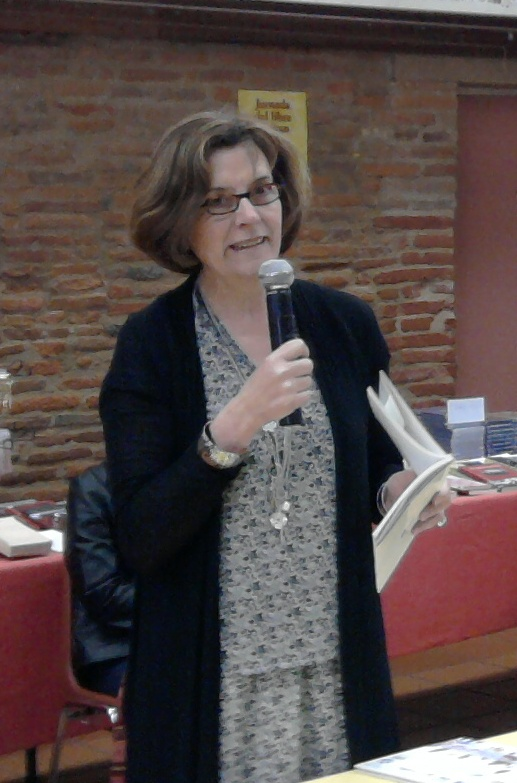 A picture of the Occitan writer Terèsa Pambrun (Jornada del Libre Occitan, March 27th 2011, Sant Orenç)